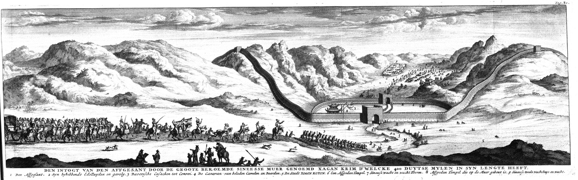 Three years travels from Moscow over-land to China : thro' Great Ustiga, Siriania, Permia, Sibiria, Daour, Great Tartary, etc. to Peking ; containing an exact and particular description of the extent and limits of those countries, and the customs of the barbarous inhabitants; with reference to their religion, government, marriages, daily imployments, habits, habitations, diet death, funerals ... to which is annex'd an accurat description of China, done originally by a chinese author